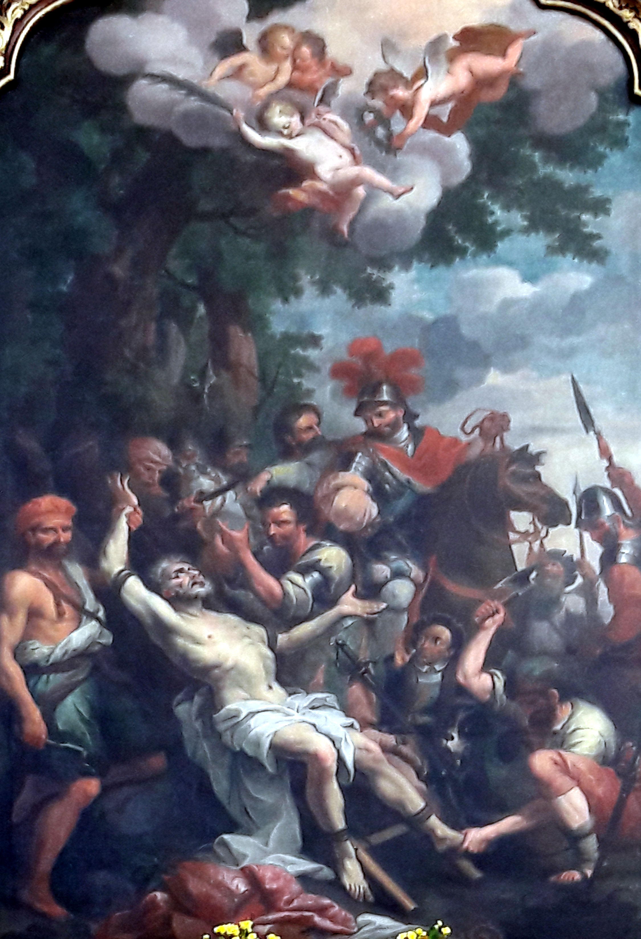 Spalt ( Middle Franconia ). Saint Emmeram parish church: High altar - Altar painting ( 18th century ) "Martyrdom of Saint Emmeram"